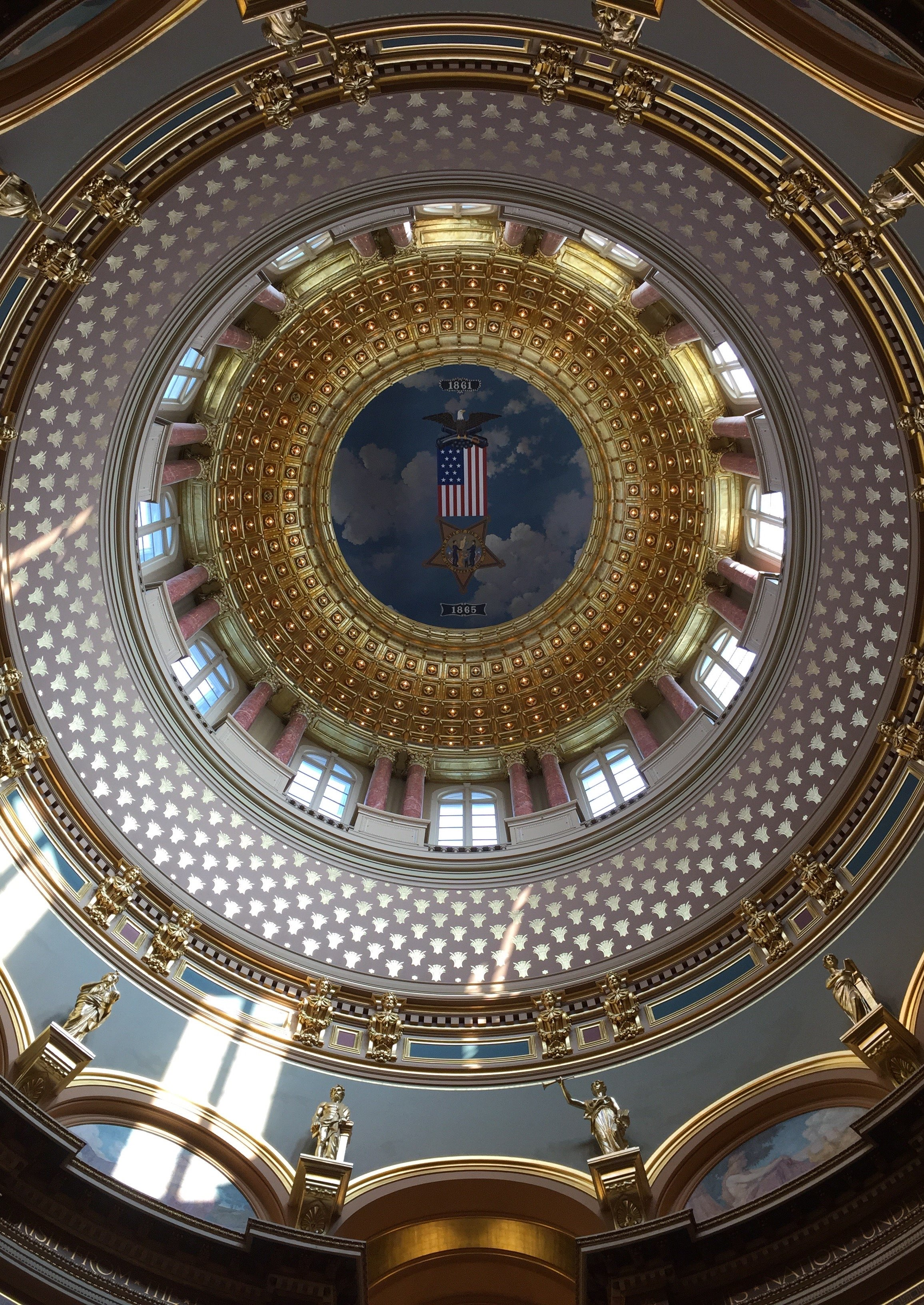 A photograph of the rotunda of the State Capitol of Iowa. In the center suspended on wires beneath the painted ceiling is a large banner of the Grand Army of the Republic insignia.